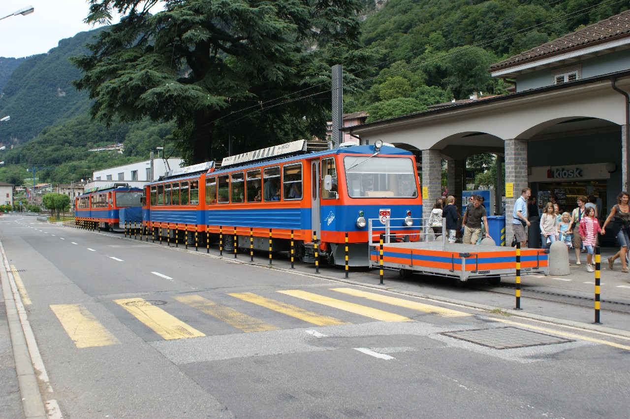 Electric double motor coach Bhe 4/8 14 St. Gallen with freight wagon M 8 and electric double motor coach Bhe 4/8 13 Salorino with freight wagon M 11 of the Monte Generoso Railway (MG) in front of Capolago-Riva S. Vitale station.